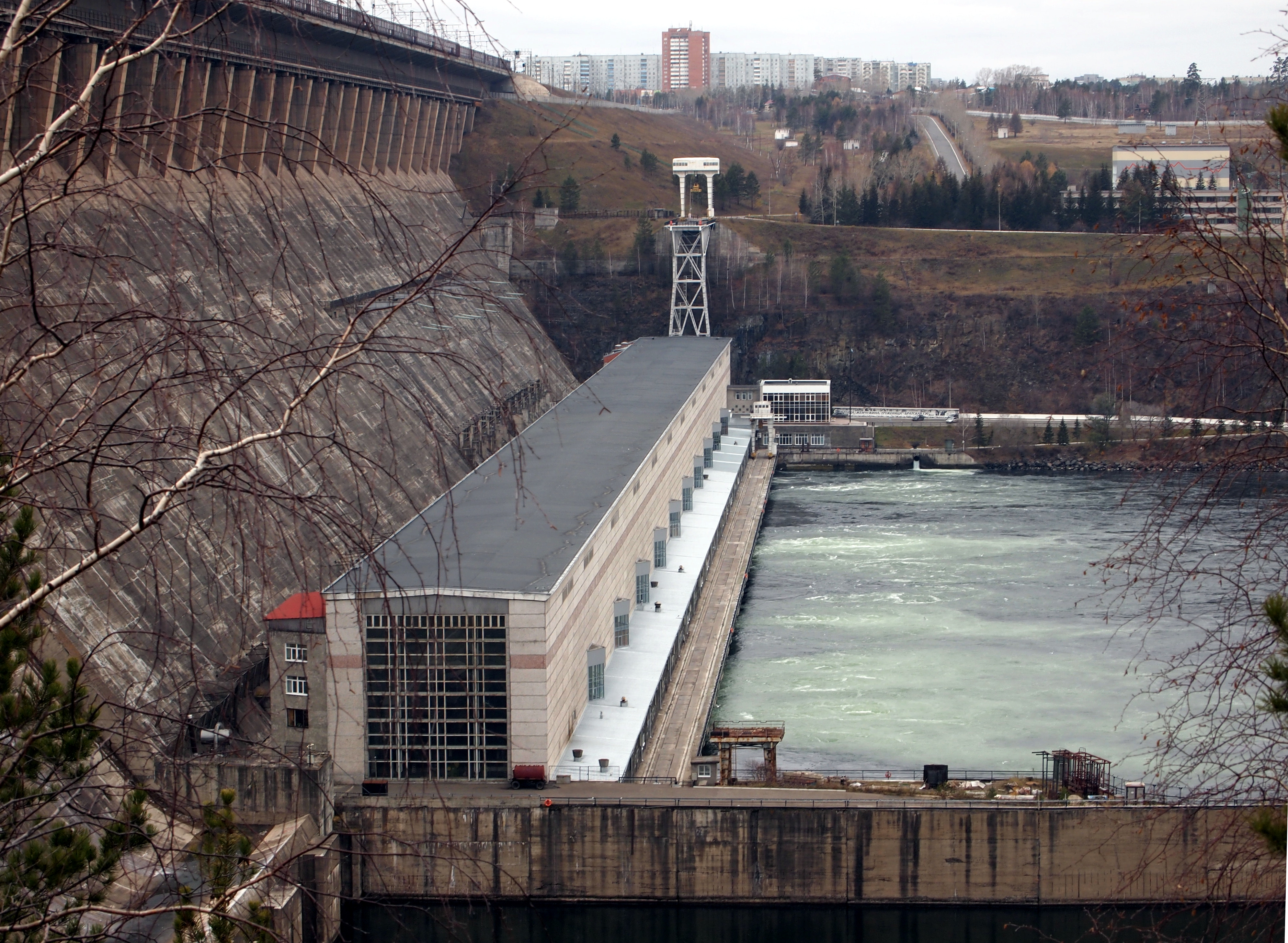 Bratsk Hydroelectric Power Station